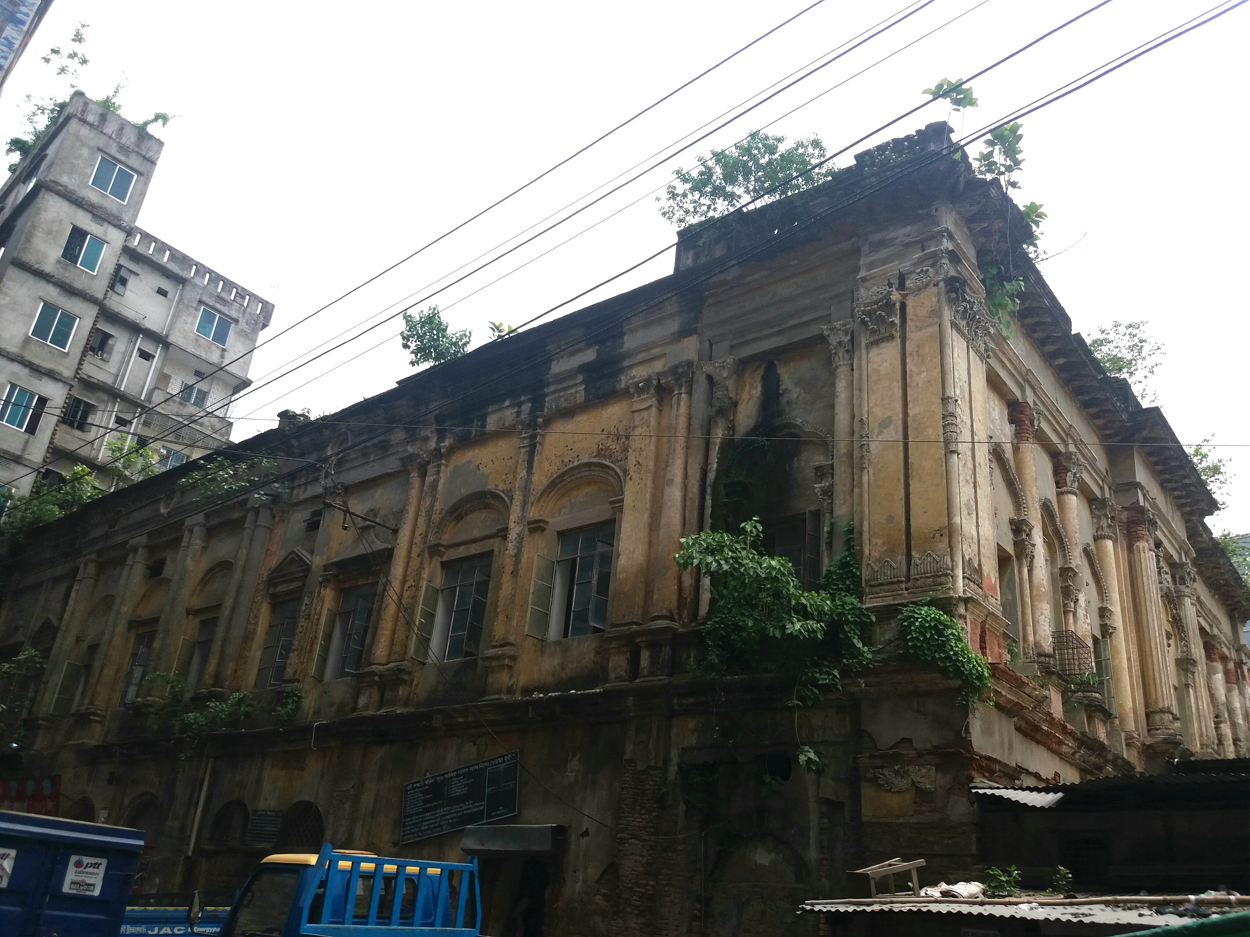 It is about 200 years old building situated in Armanitola of Dhaka city in Bangladesh. An Armenian merchant Nicholas Pogose owed the building.